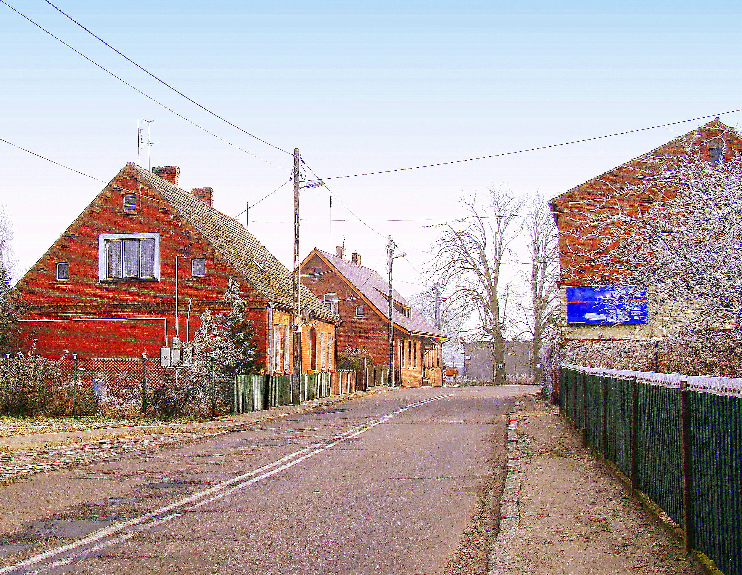 Uniemysl (Police County, West Pomeranian Voivodeship), Poland